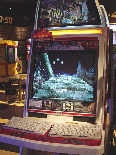 Arcades throughout Tokyo had actual typing games with full-on keyboards, this one and a Lupin III-themed game. I didn't try Typing of the Dead because I already played it at home, but I have to say I rocked at the Lupin one -- I was doing great until it got to the point where you have to know the Japanese names for the characters on the show.